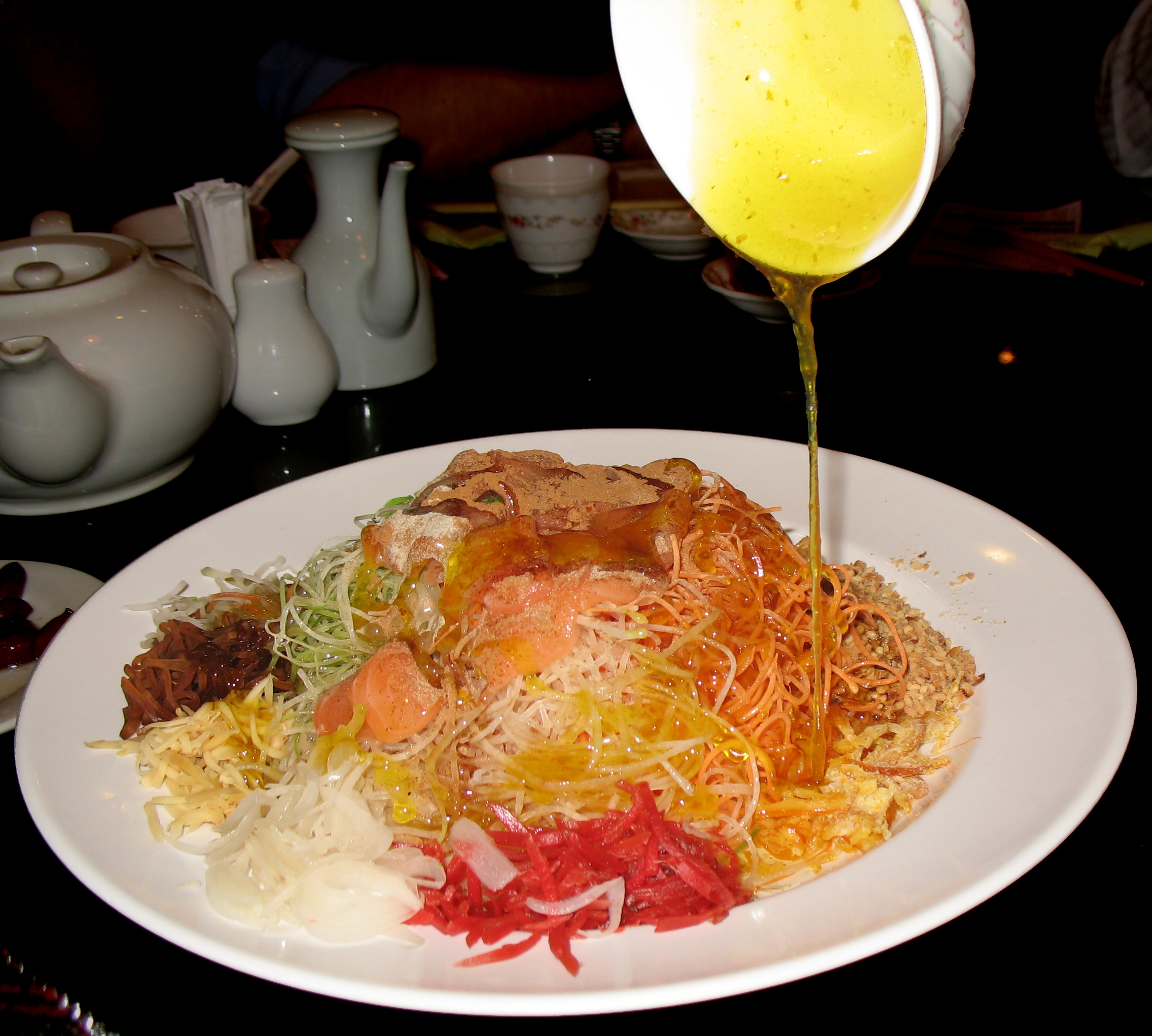 Yusheng, Chinese-style raw fish salad Picture taken by author with Canon Powershot A620 on 25 Jan 2006, 12:19pm. Details: sRGB, 1/60sec, F/2.8, f=7mm, pattern metering mode, exposure compensation = 0EV, flash background was darkened